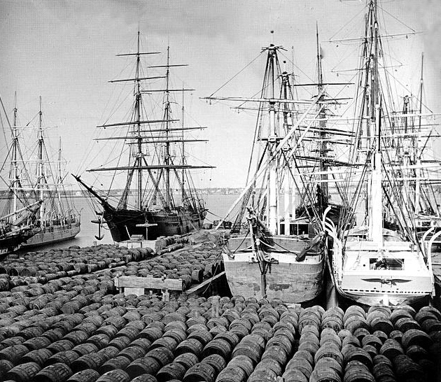 In November 1861 at the Port of Philadelphia, more than 1,300 barrels of Pennsylvania petroleum were loaded aboard the two-masted brig Elizabeth Watts.